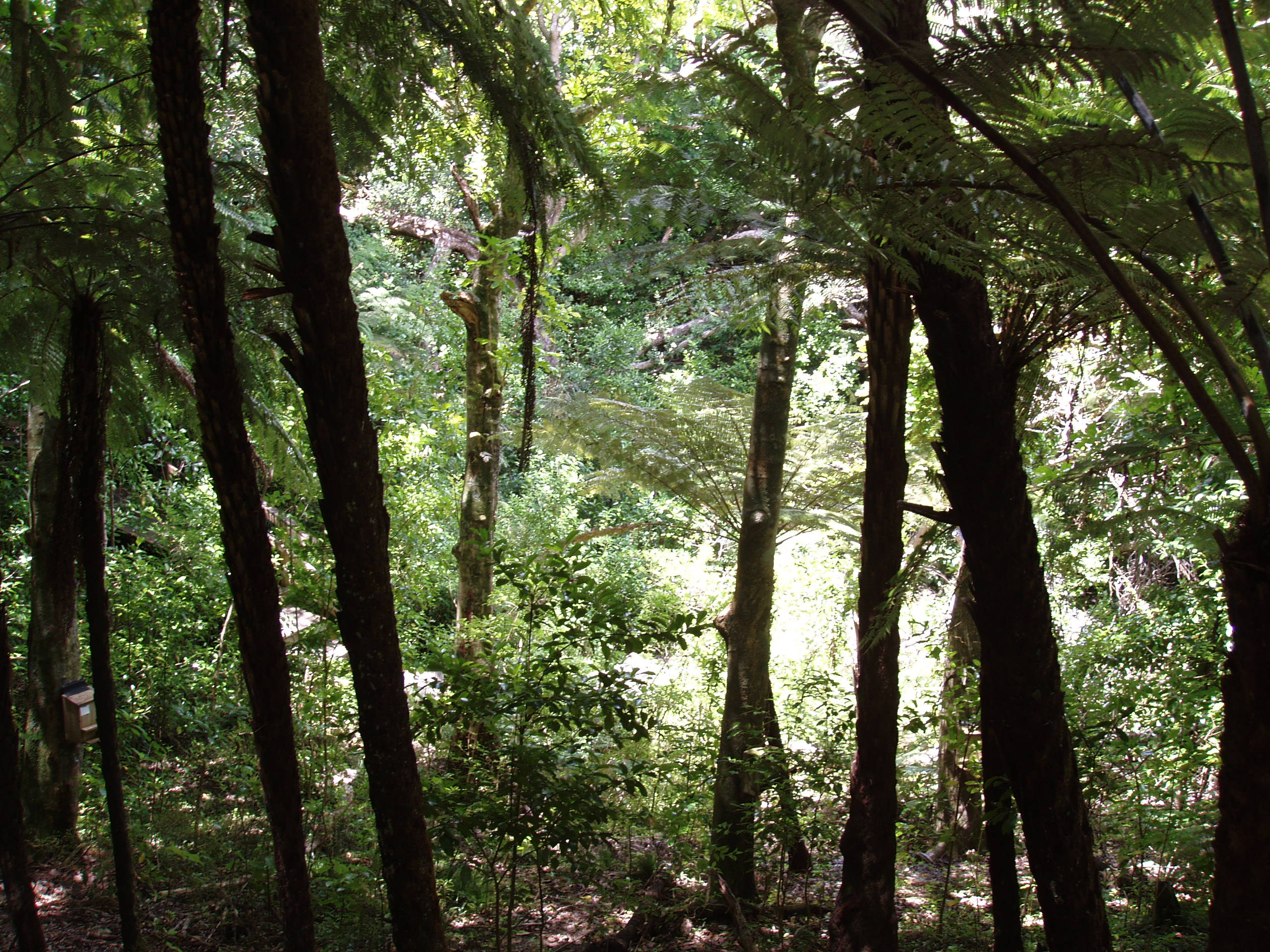 A forest view on the island of Tiritiri Matangi, New Zealand